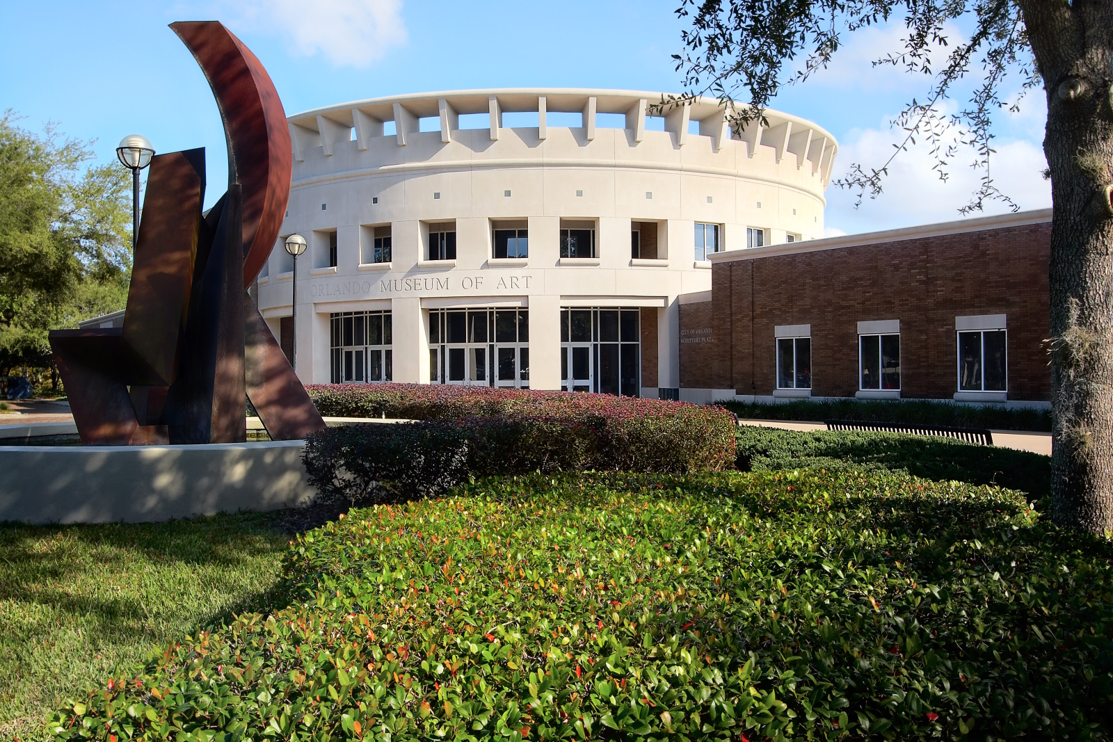 Orlando Museum of Art - Orlando, Florida, United States